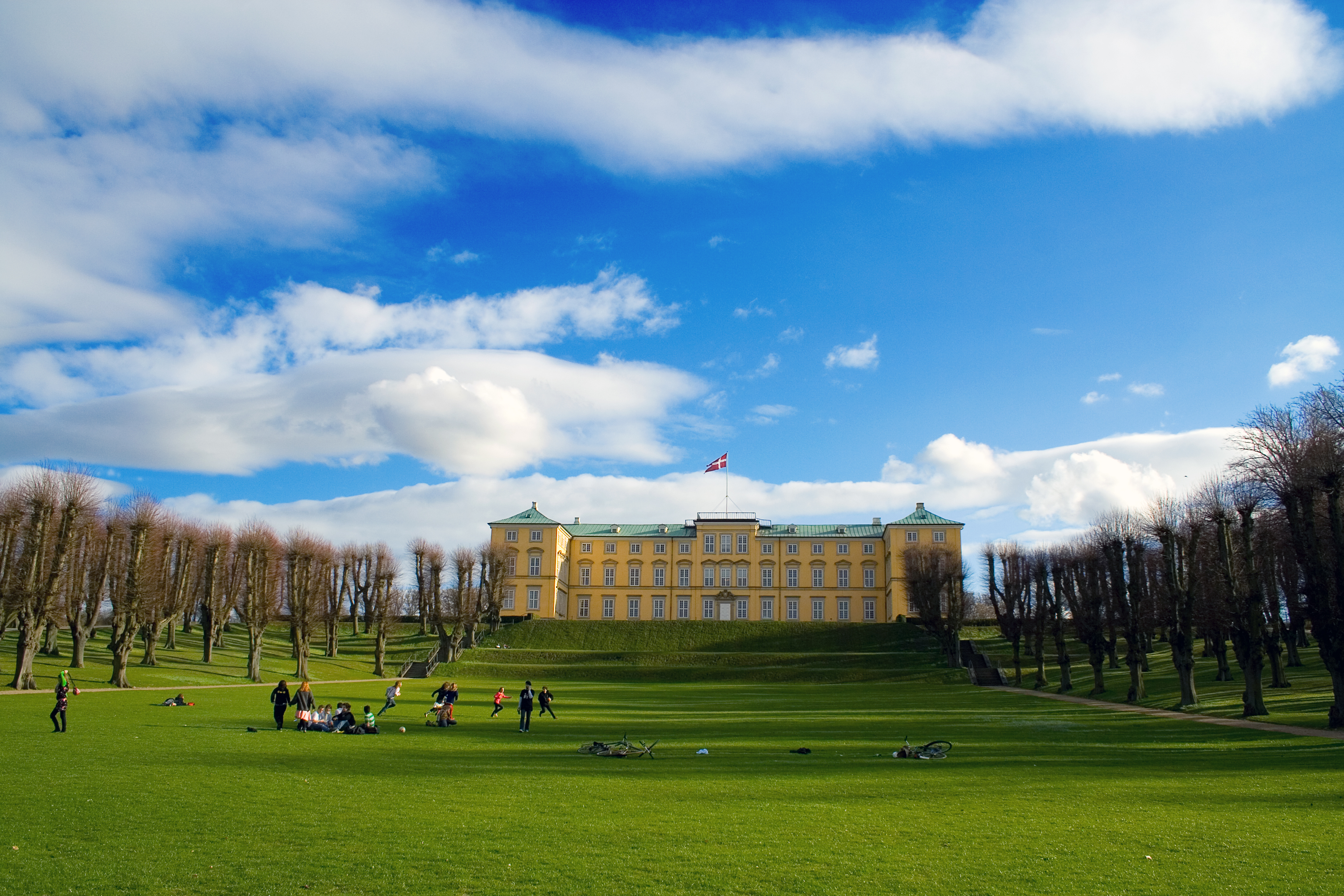 Frederiksberg Have